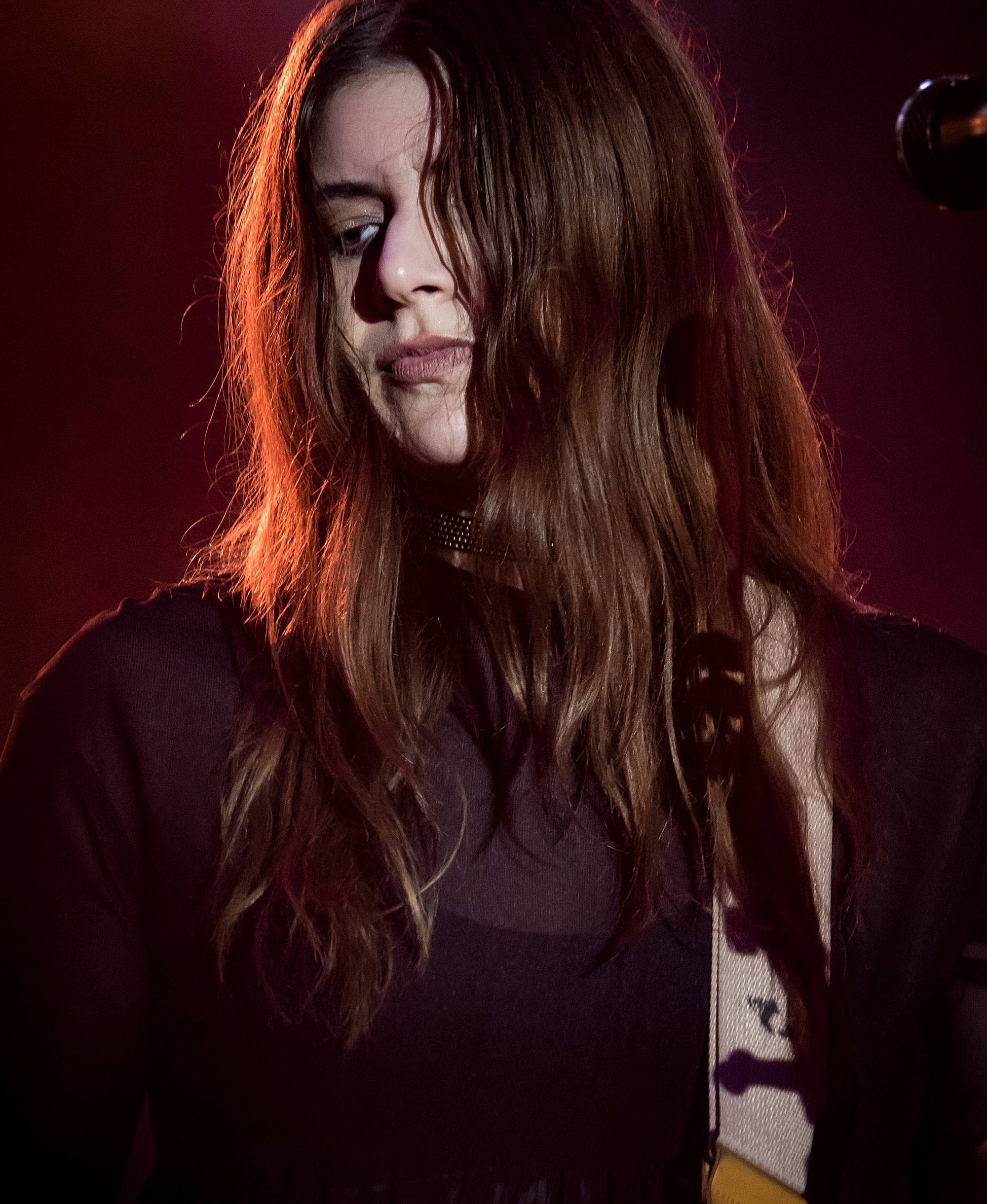 Best Coast at Airbnb Open Spotlight